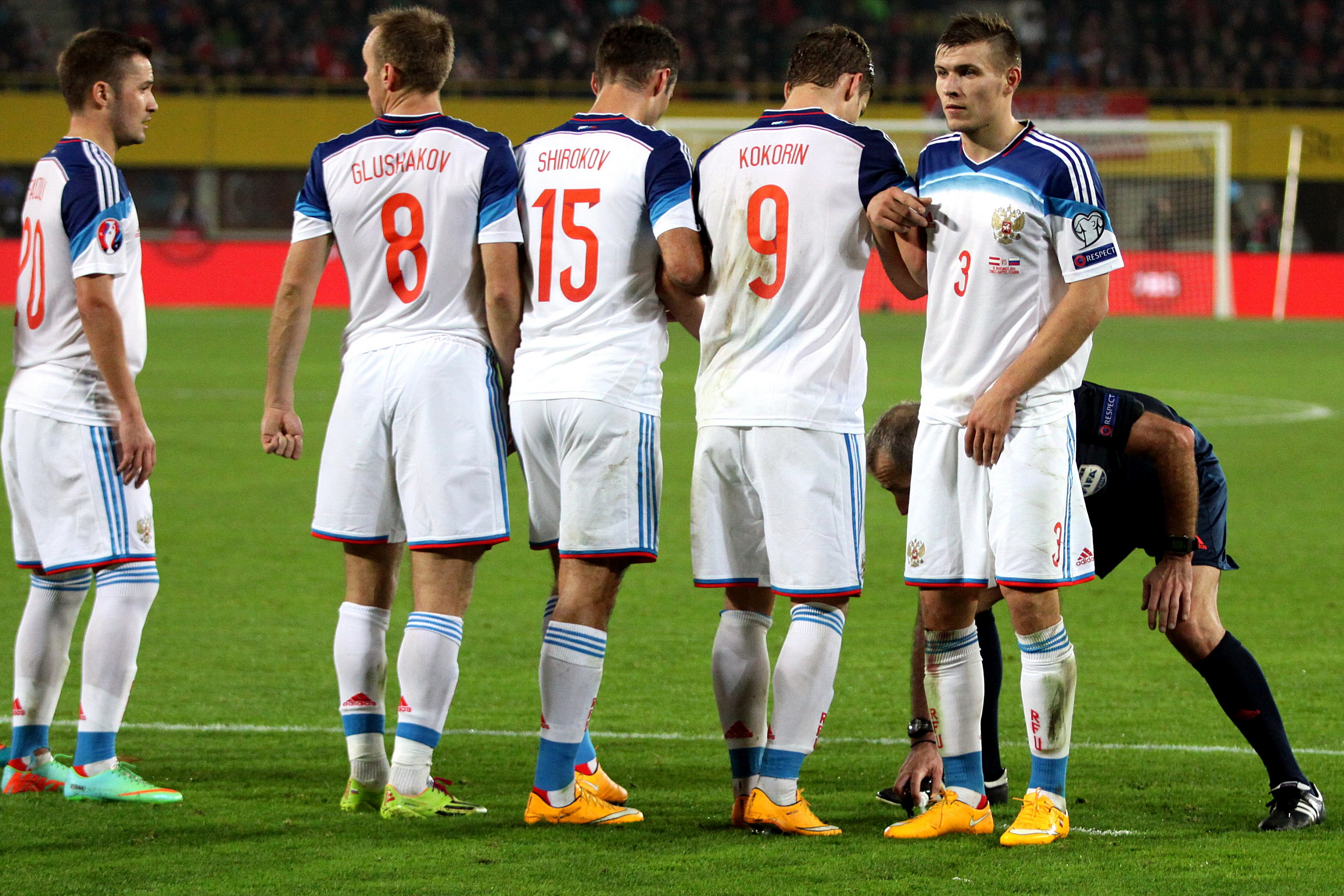 UEFA Euro 2016 qualifying: Austria vs. Russia (1:0 / 0:0) at 2014-11-15 in the Ernst-Happel-Stadion in Vienna. – The photo shows referee Martin Atkinson using the vanishing foam. The Russian player Viktor Fayzulin, Denis Glushakov, Roman Shirokov, Aleksandr Kokorin and Sergey Parshivlyuk (from left to right) builds a wall.